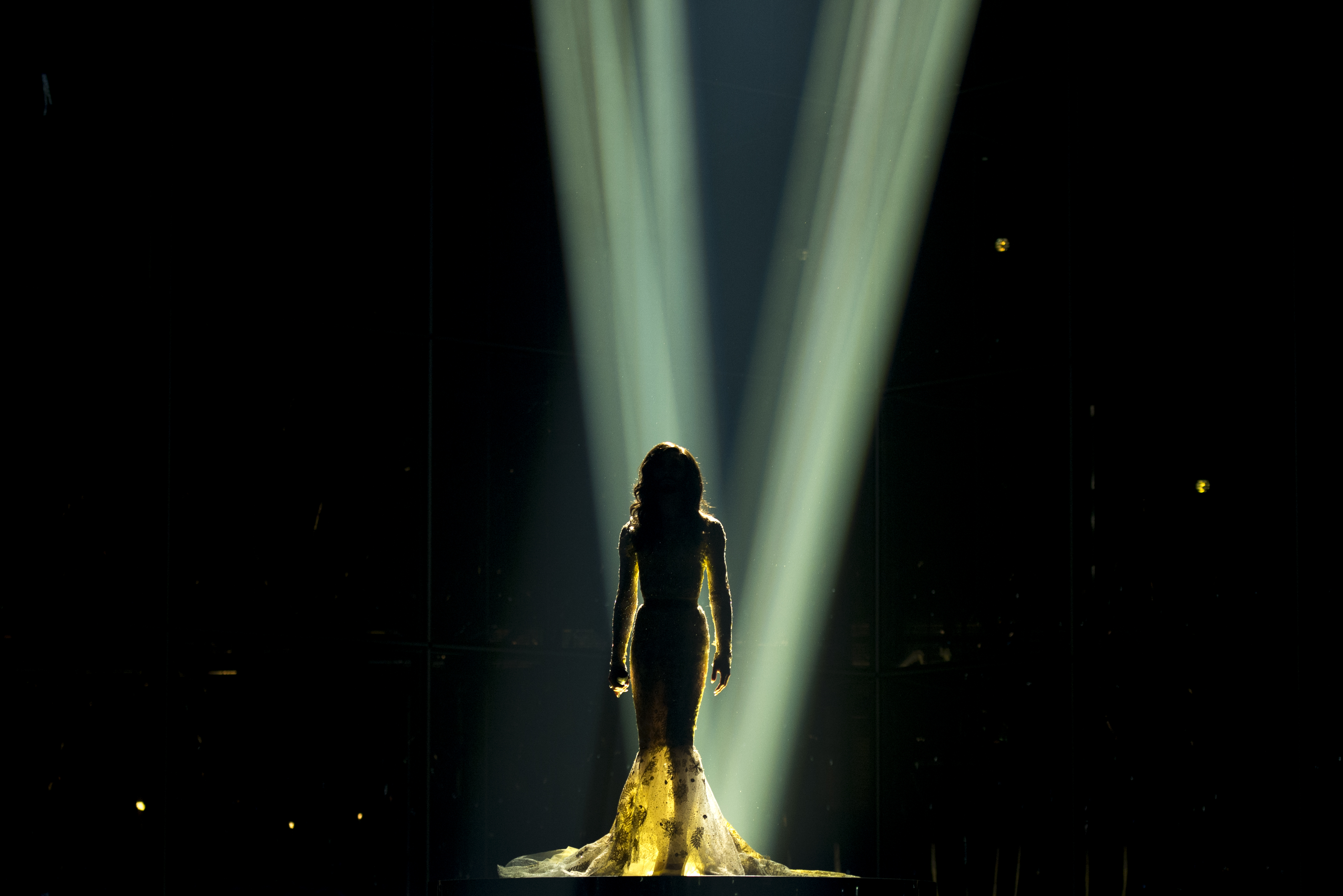 Conchita Wurst representing Austria with the song "Rise Like a Phoenix" during the first dress rehearsal of the second semi final of the Eurovision Song Contest 2014 Copenhagen. (Help translate this text)